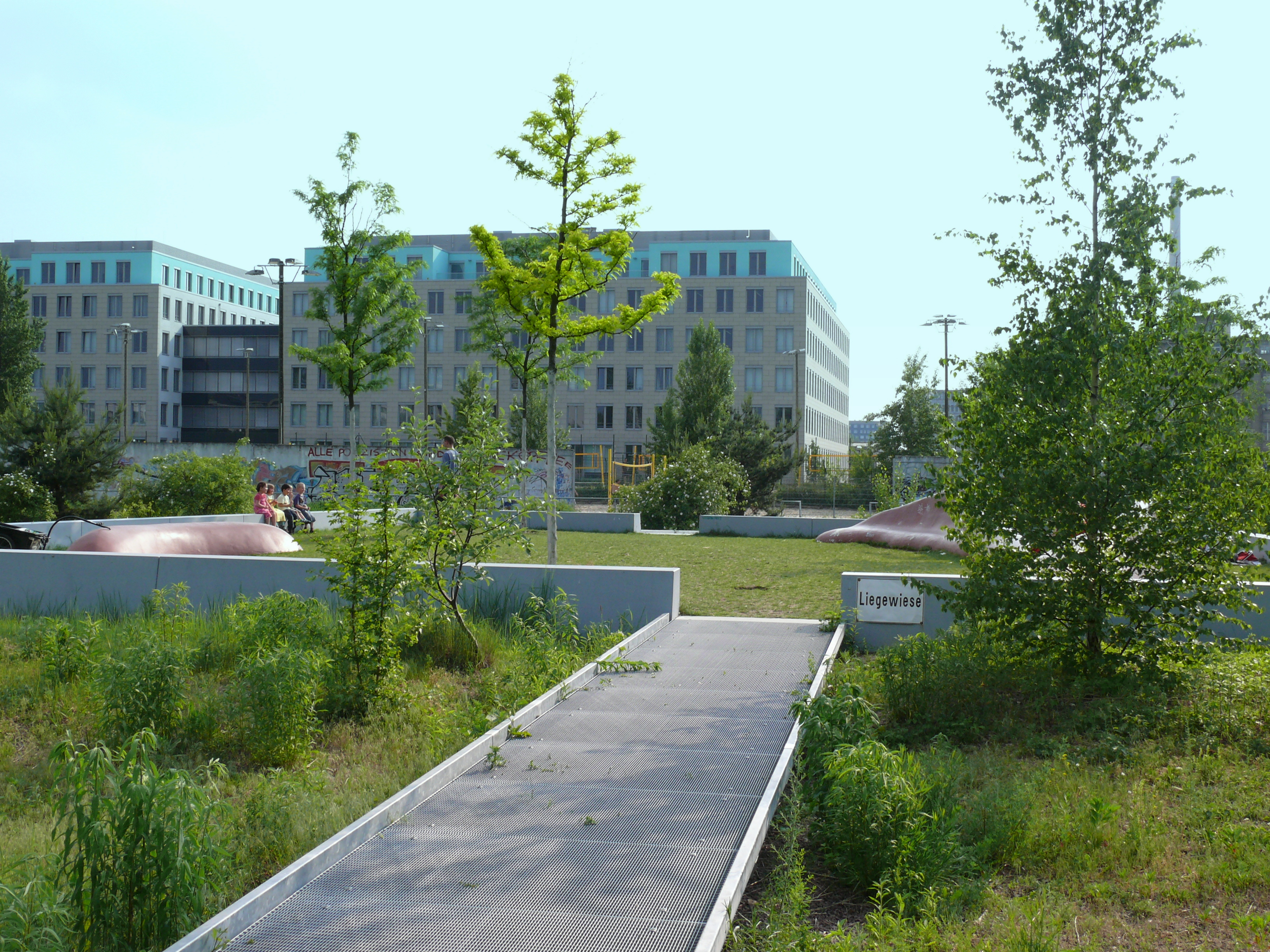 Park am Nordbahnhof lawn